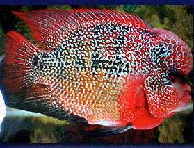 KGM